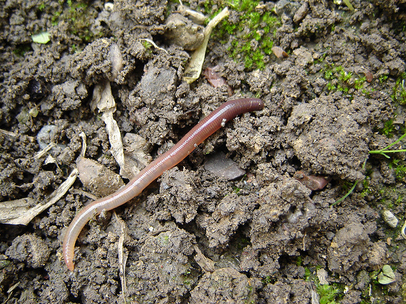 Earthworm (probably a Lumbricus rubellus; definitely a Lumbricus) in humous surface soil in the eathernmost part of Slavonia